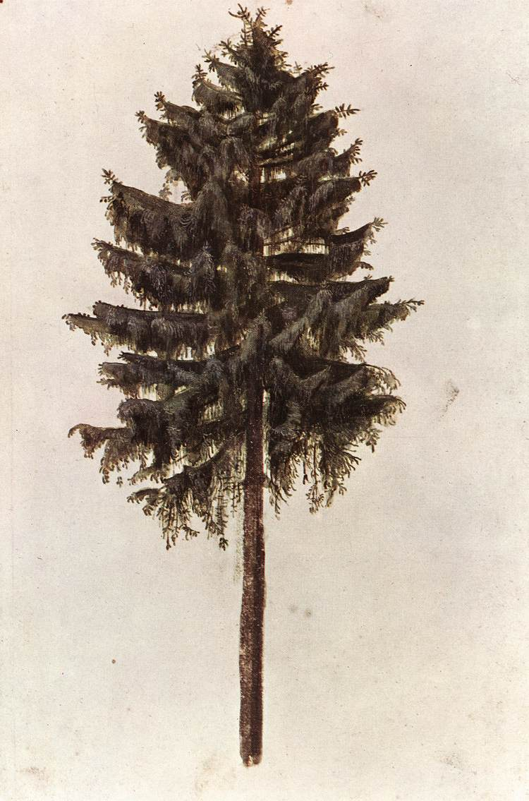 Picea abies (Norway Spruce) tree